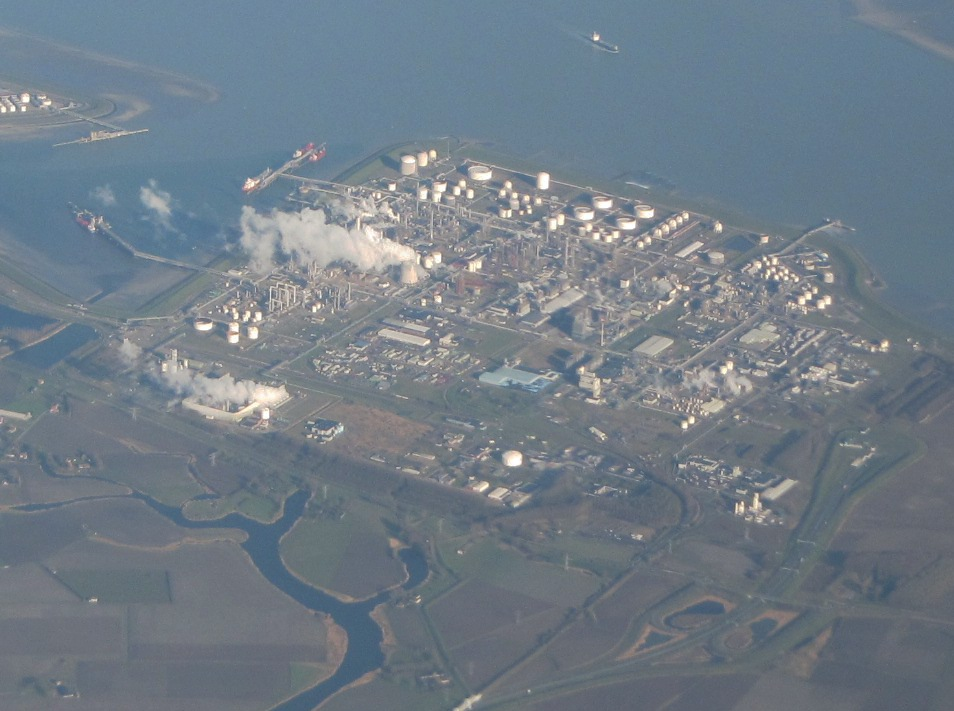 Dow_Chemical_(Terneuzen), seen from the south